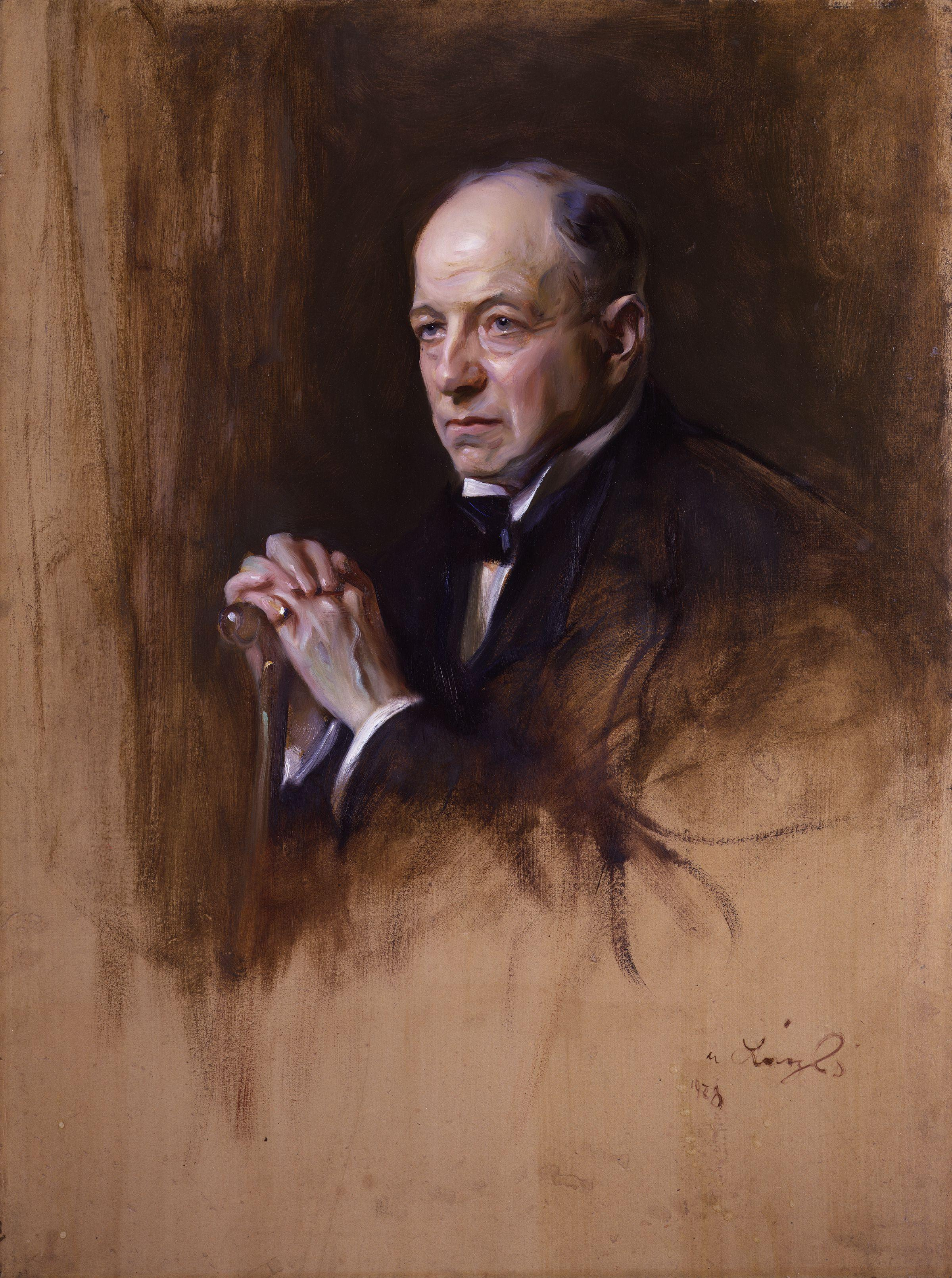 Richard Burdon Haldane, Viscount Haldane, by Philip Alexius de László (died 1937). All images in this batch have been confirmed as author died before 1939 according to the official death date listed by the NPG.